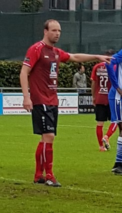 Tom Siebenaler, in the FC UNA Strassen dress, on 29 September 2019